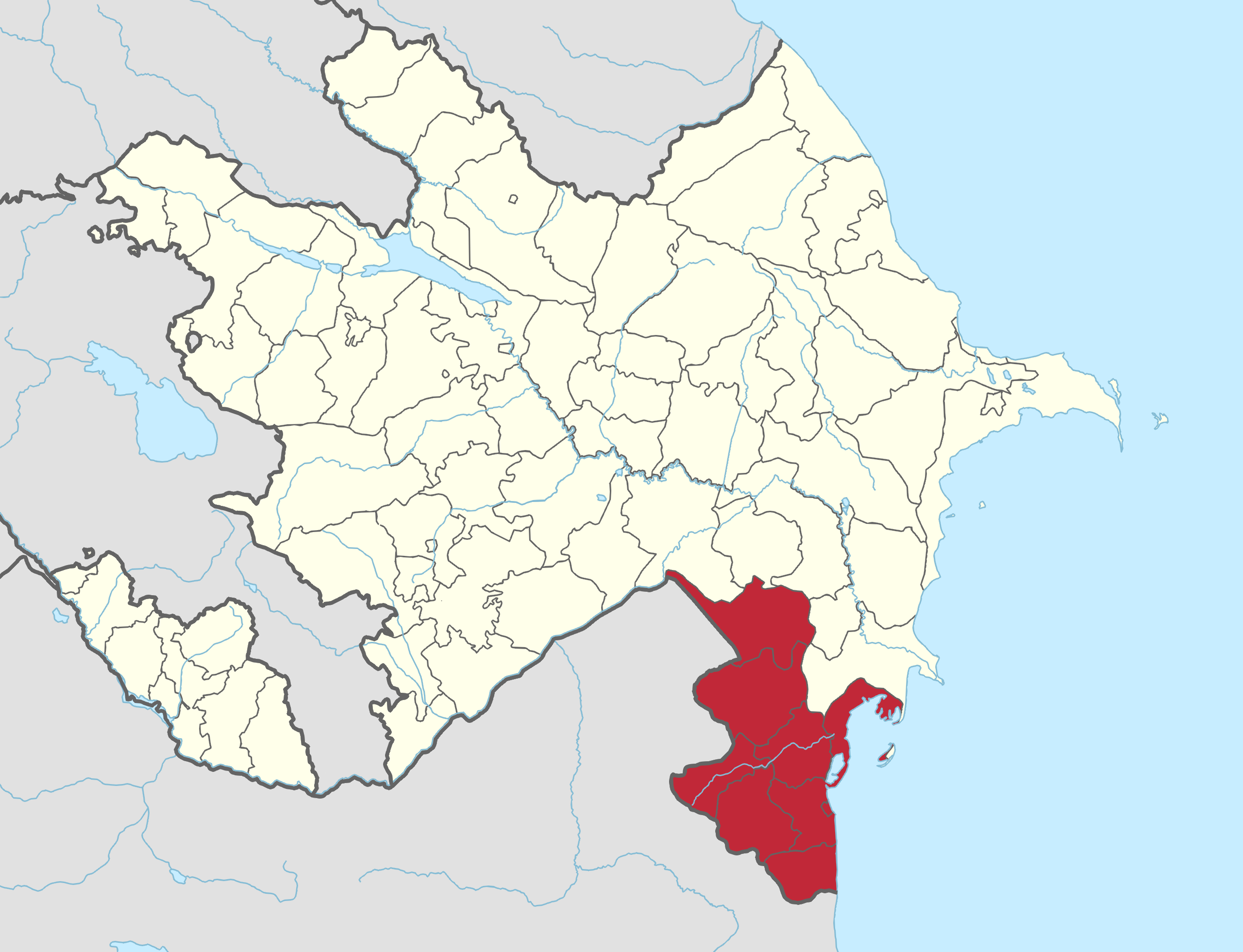 Map of the districts of Azerbaijan highlighting the six that declared the short-lived Talysh-Mughan Republic. Made by User:Golbez.